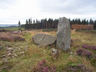 Whitehills Stone Circle.